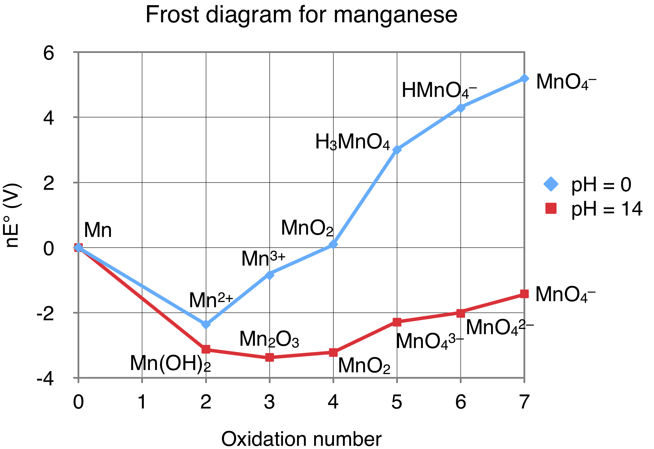 Frost diagram for manganese. Data from Shriver & Atkins' Inorganic Chemistry, 5th Edition, 2010